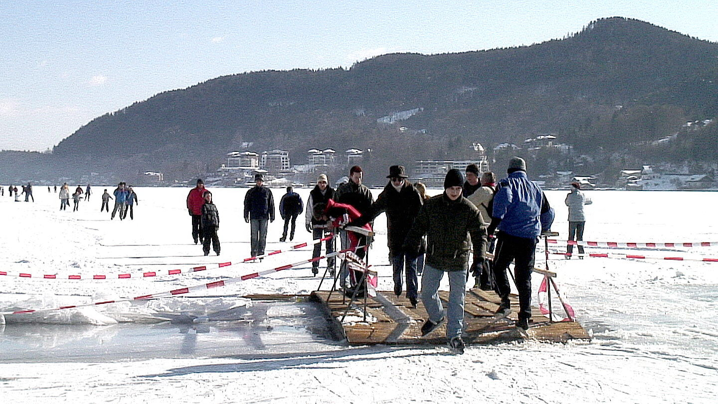 Skating on the frozen surface of the Lake Woerth in the bay of Reifnitz, district Klagenfurt-Land, Austria